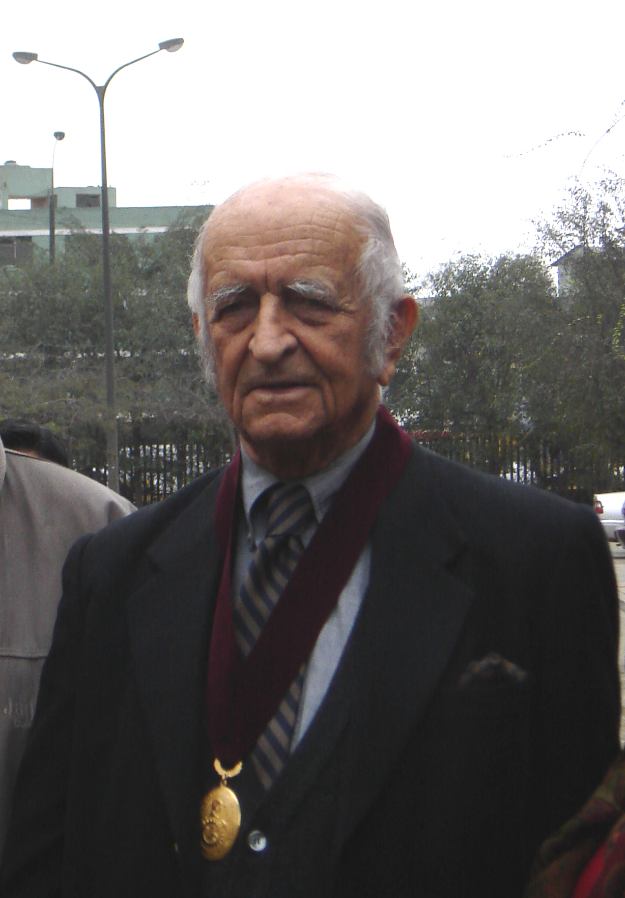 Peruvian artist Fernando de Szyszlo at a ceremony in the National University of Engineering, Lima, Peru.